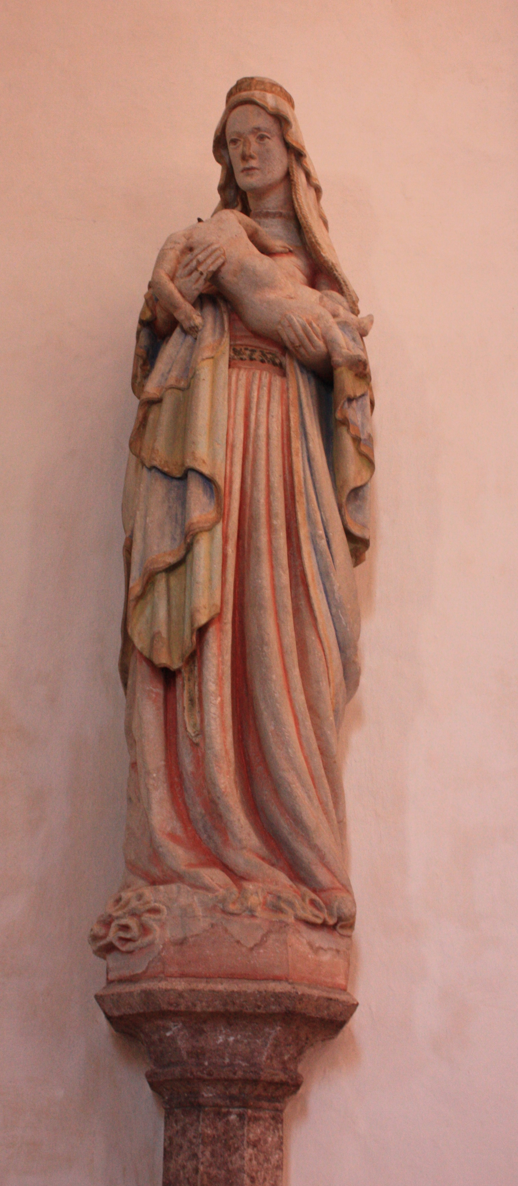 Parish church "Maria Magdalena": Madonna with child (without head) Street:Kirchengasse Community:Völkermarkt